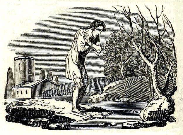 The fable of the young man and the swallow, a woodcut from the 1814 editions of Samuel Croxall's The Fables of Aesop""